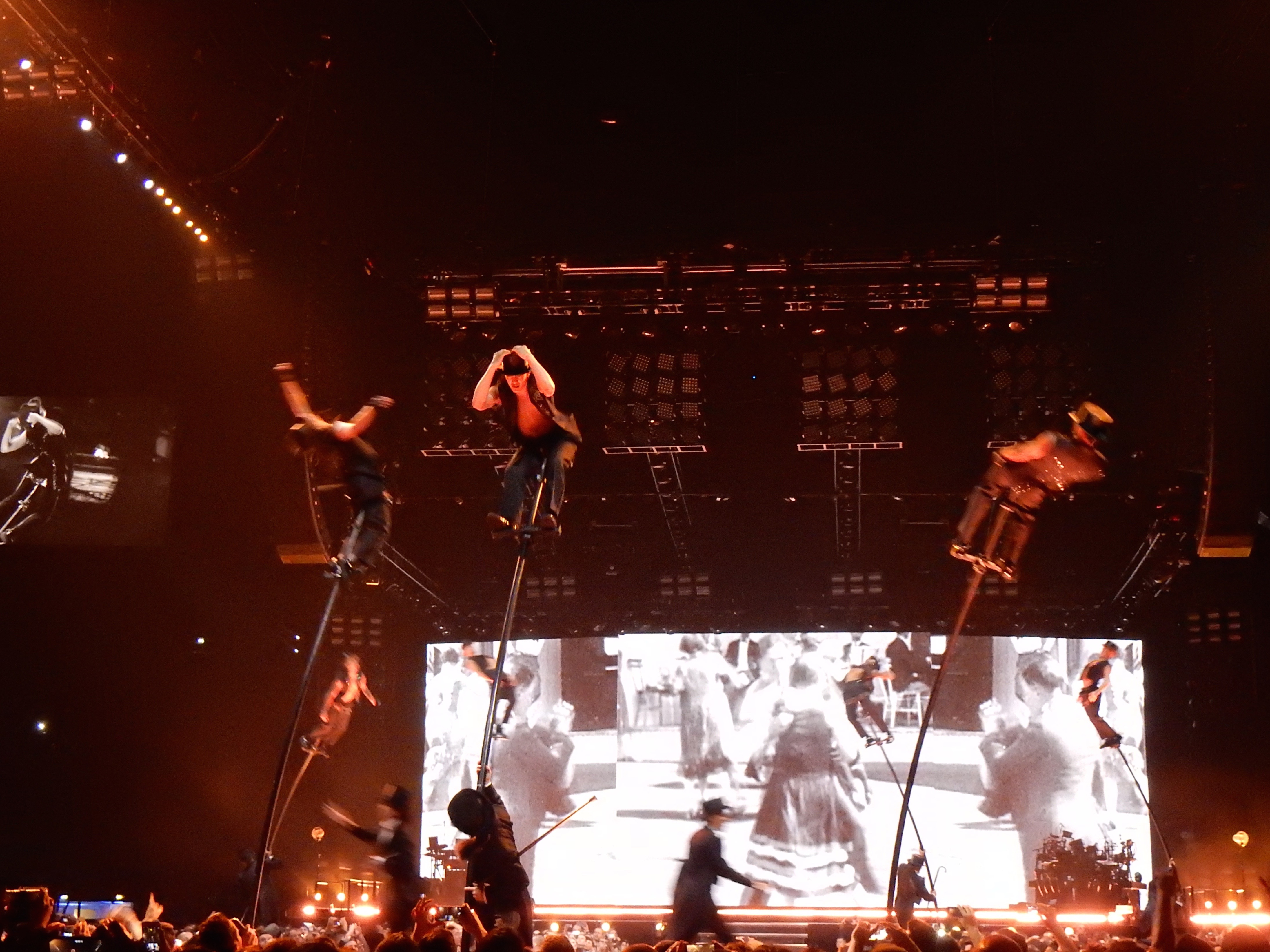 Madonna - Rebel Heart Tour 2015 - Paris 2